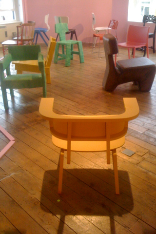 fly chair by Ineke Hans for Arco part of Mind-sets exhibition at Aram curated by Daniel Charny